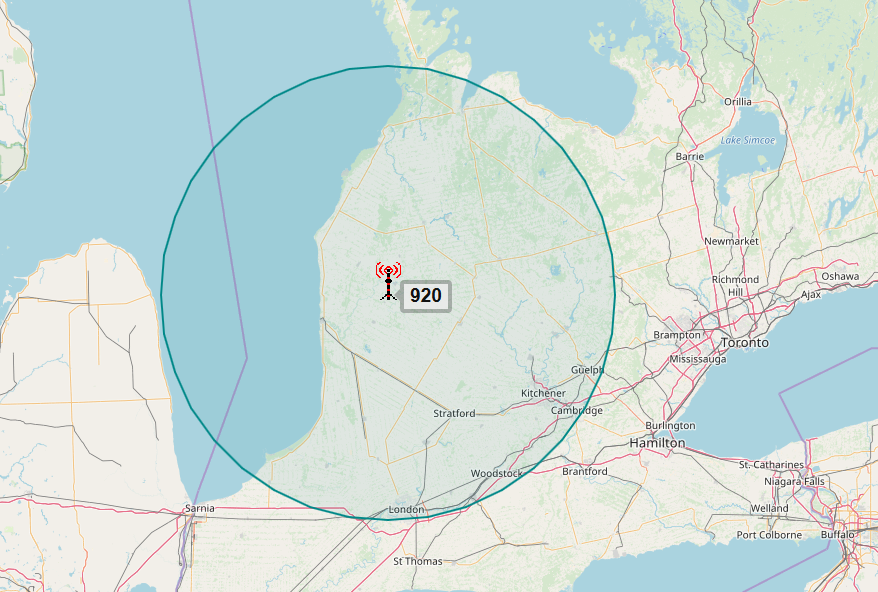 Broadcast area for CKNX AM located in Wingham, Ontario.